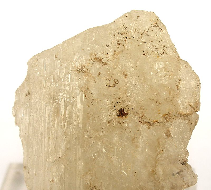 Amblygonite, Montebrasite Locality: Dunton Gem Quarry, Newry, Oxford County, Maine, USA (Locality at ) Size: miniature, 3.4 x 3.1 x 1.7 cm Montebrasite Collected shortly after the famous blue-green tourmaline pocket. In 1974, Bob Whitmore collected a small pocket hosting several crystals of Montebrasite, such as this one. Ex. Robert Whitmore Collection.